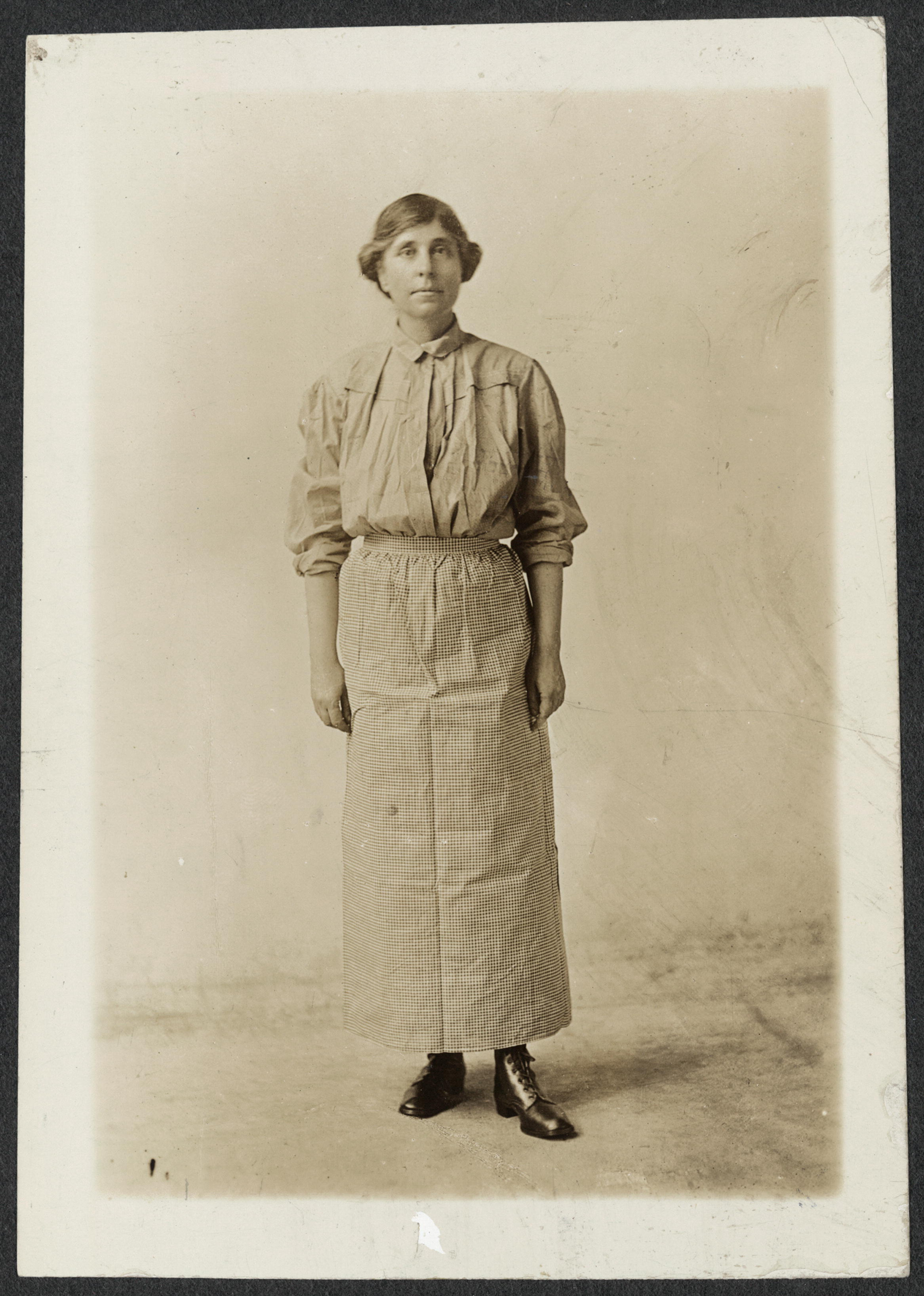 Abby Scott Baker of Washington, D.C., was known as the diplomat of the NWP because of her personal lobbying of scores of prominent politicians. Member, NWP executive committee, and political chairman beginning 1918. Baker was arrested for picketing and sentenced to 60 days in Occoquan Workhouse, Sept. 1917. She was one of the speakers on the "Prison Special" tour in Feb-Mar 1919. Source: Doris Stevens, Jailed for Freedom (New York: Boni and Liveright, 1920), 355.